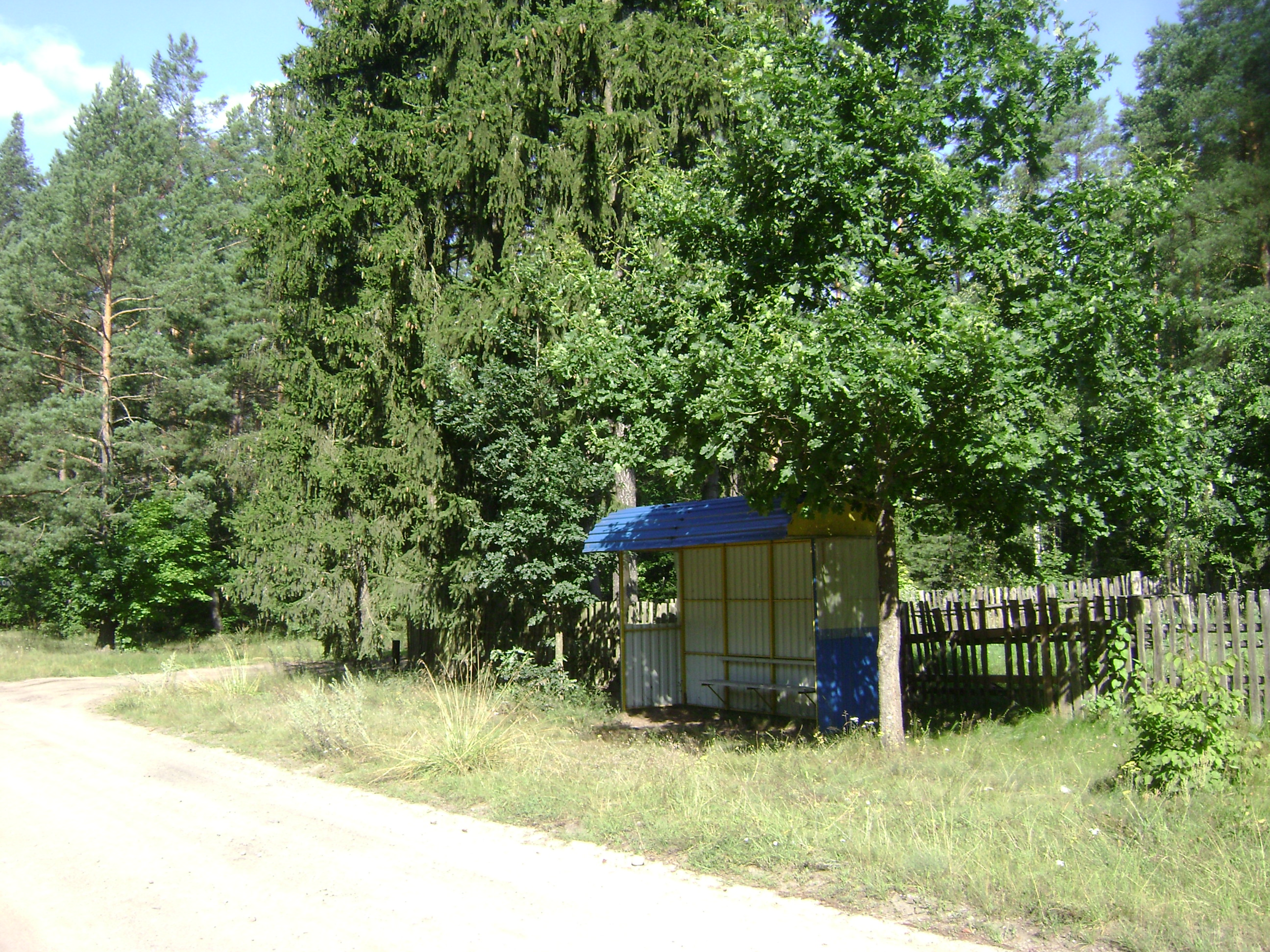 Sędańsk kolonia. Bus stop